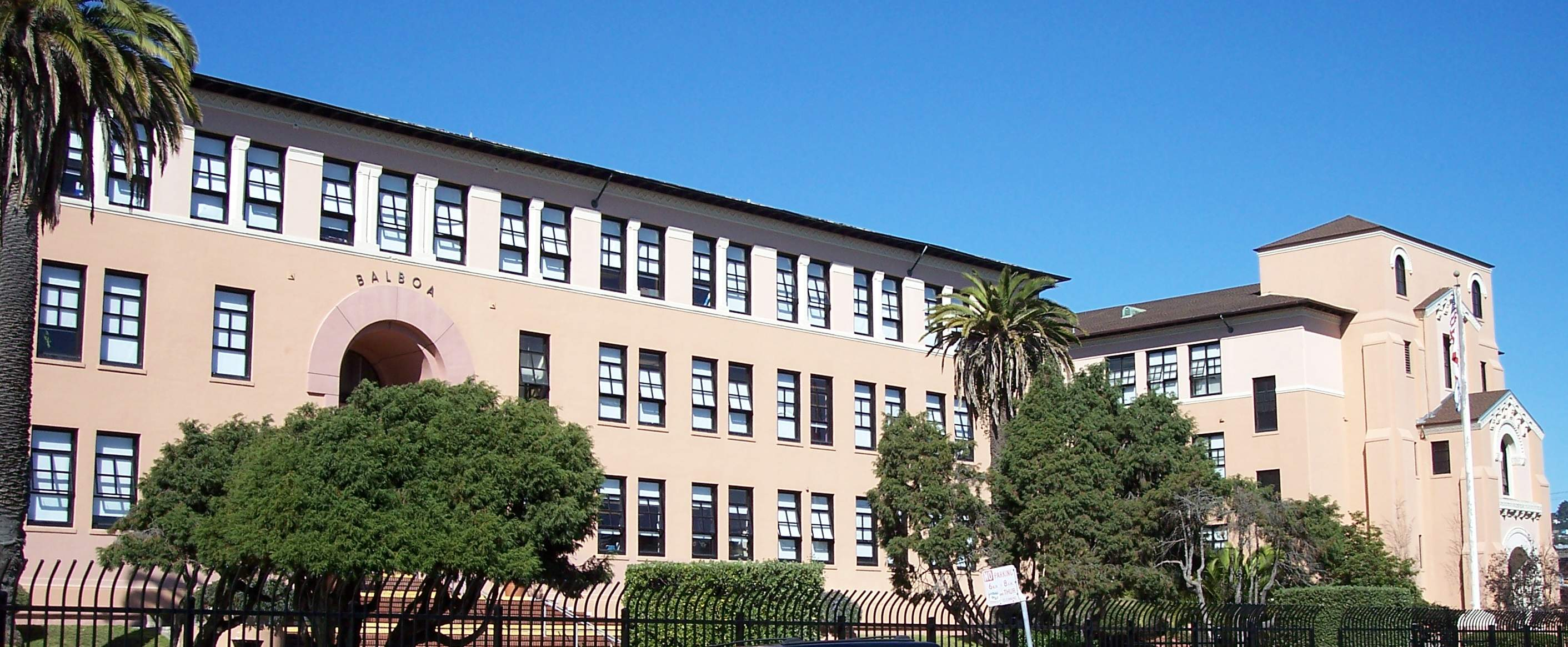 Balboa High School, San Francisco, California